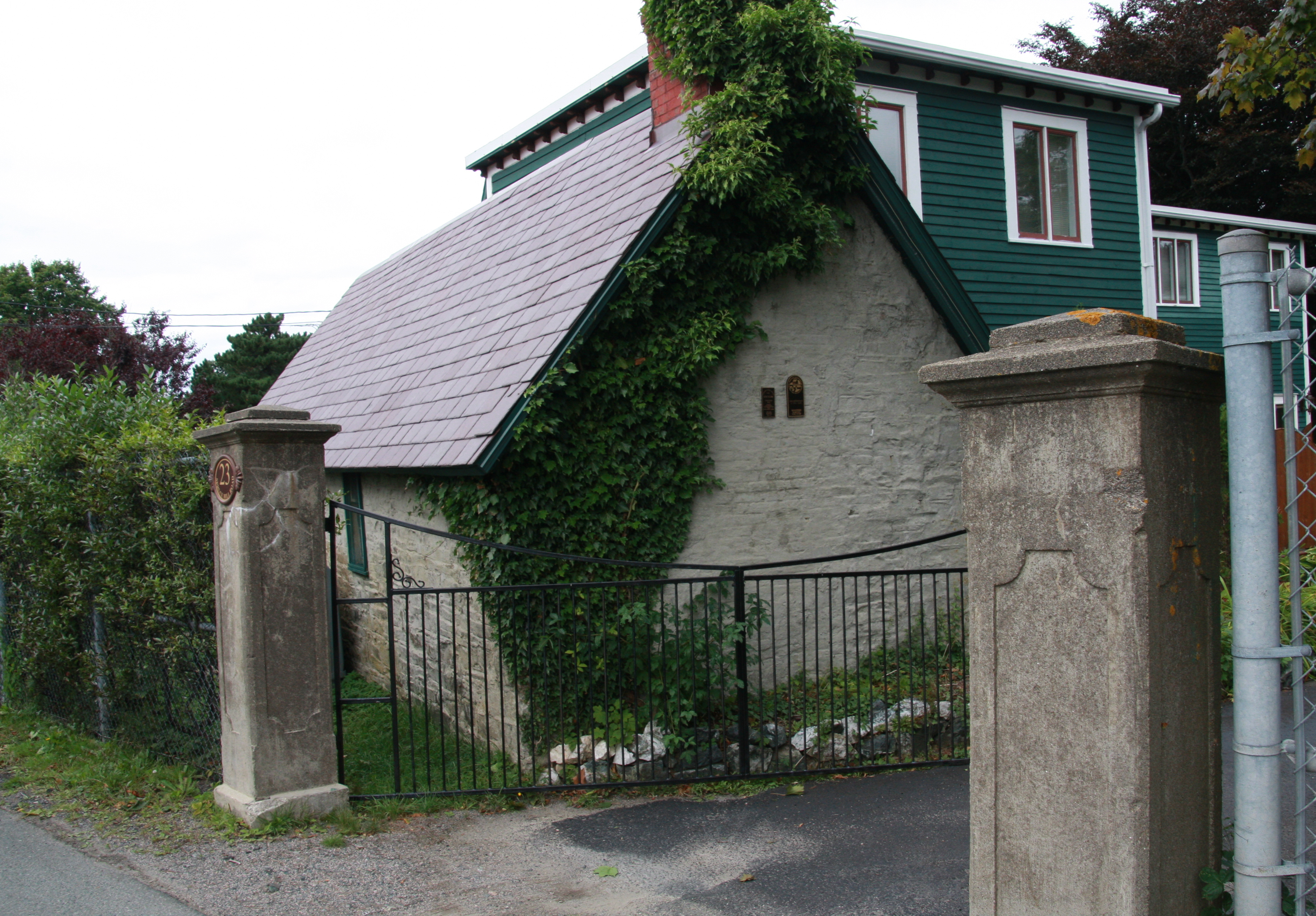 Stone house with Slate roof, may be the oldest building in Newfoundland with records suggesting it was built in the 1790's.